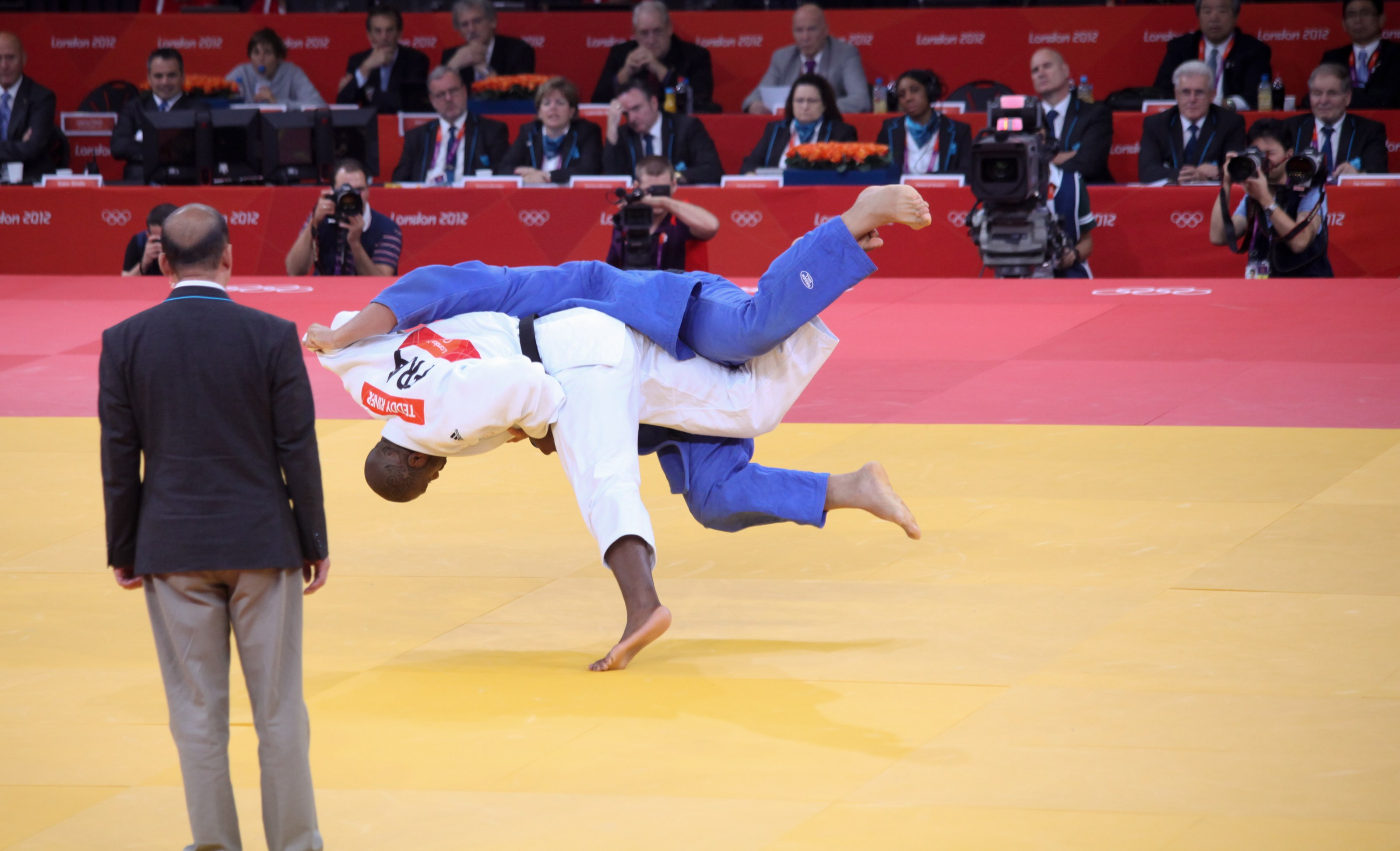 Olympic Judo London 2012